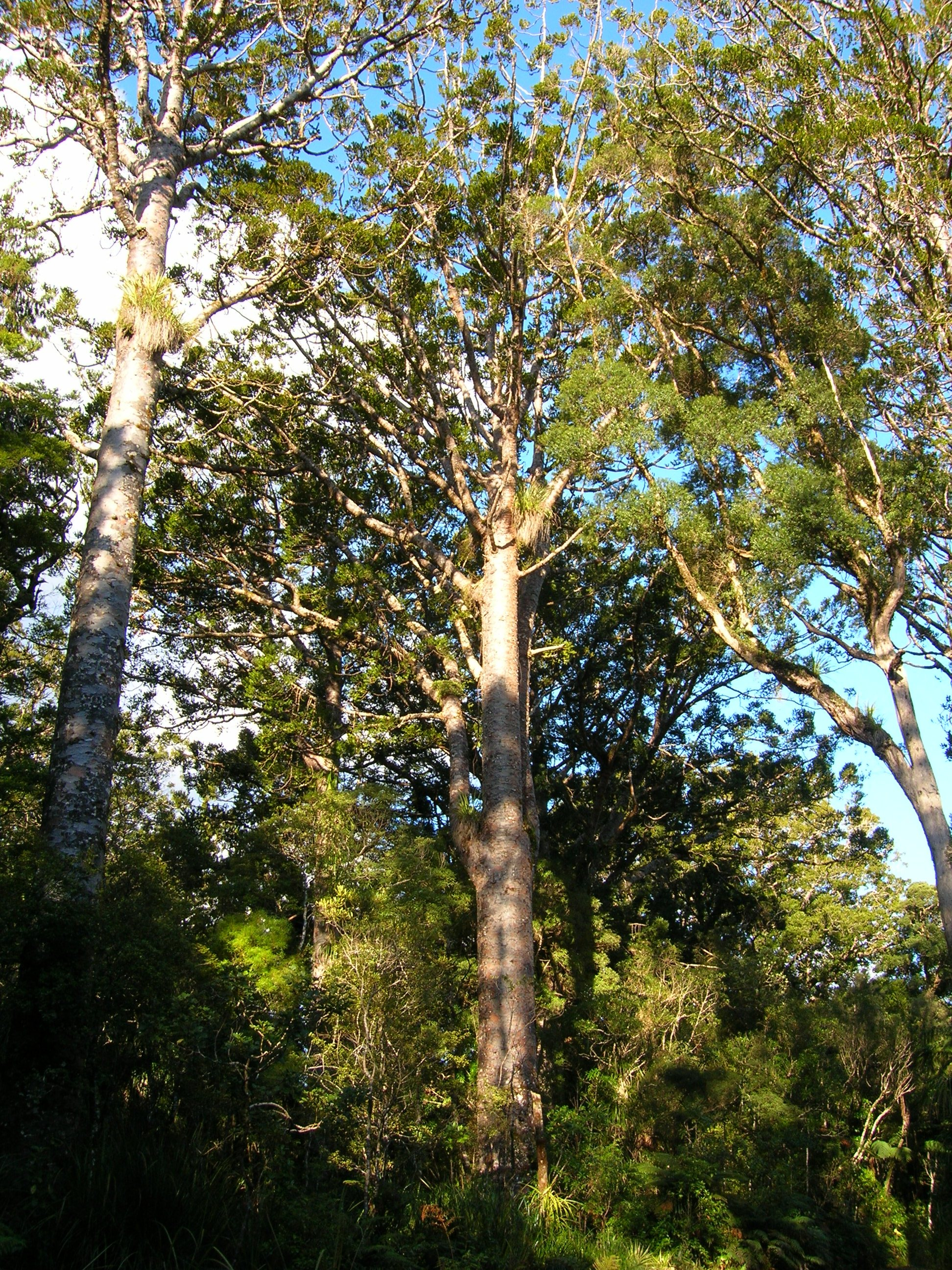 Agathis australis, Waipoua Forest, North Island, New Zealand